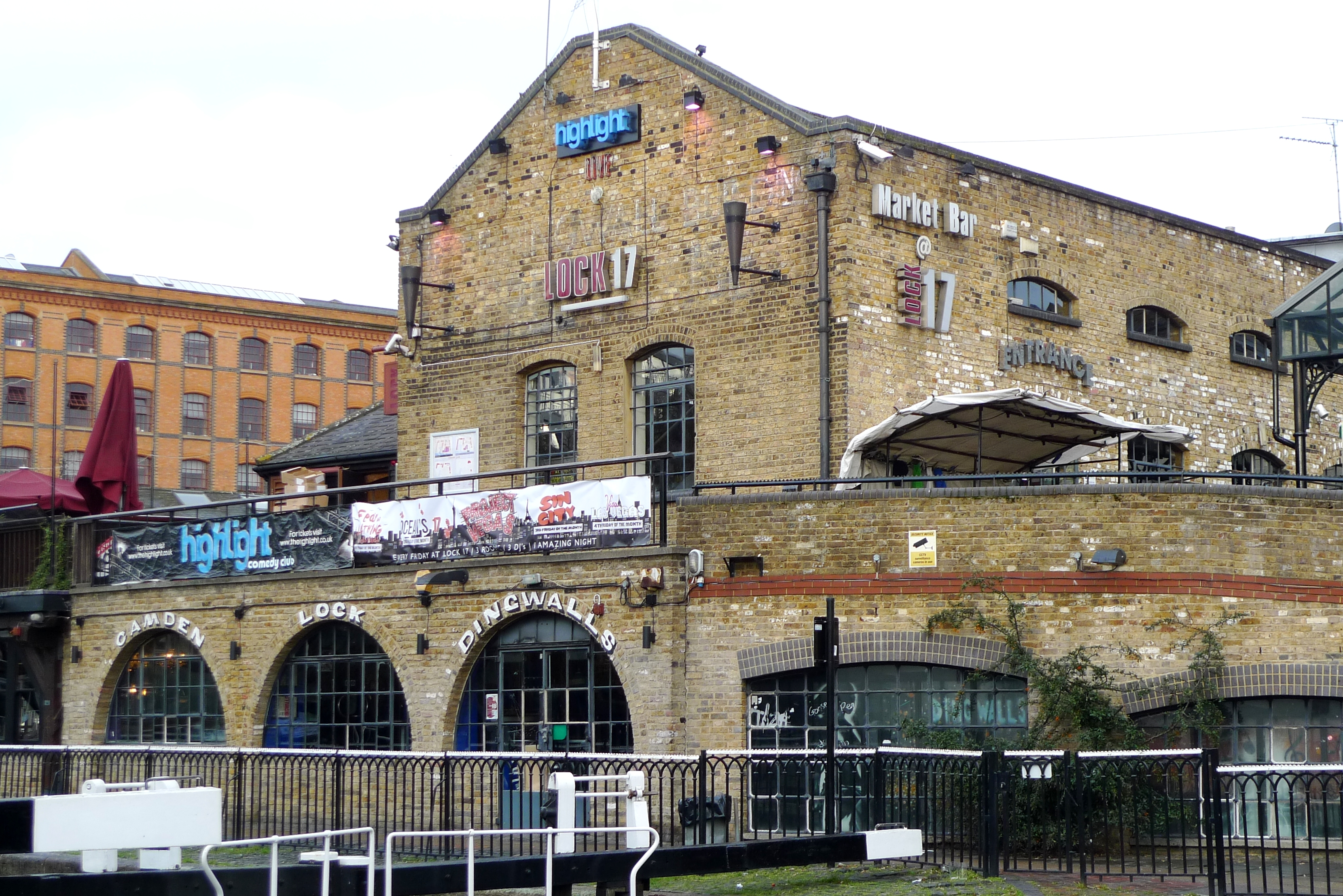 This is a bar and venue in the Camden Lock Markets, one of several, and I believe it's related to (or the same as) Dingwalls. It also includes the Market Bar pictured (as well as the Canalside Bar and Terrace Bar to the left). Presumably the lock at the foreground of this photo is number 17. Address: 11 East Yard, Camden Lock. Owner: Lock 17 (website). Links: Pubs Galore Beer in the Evening